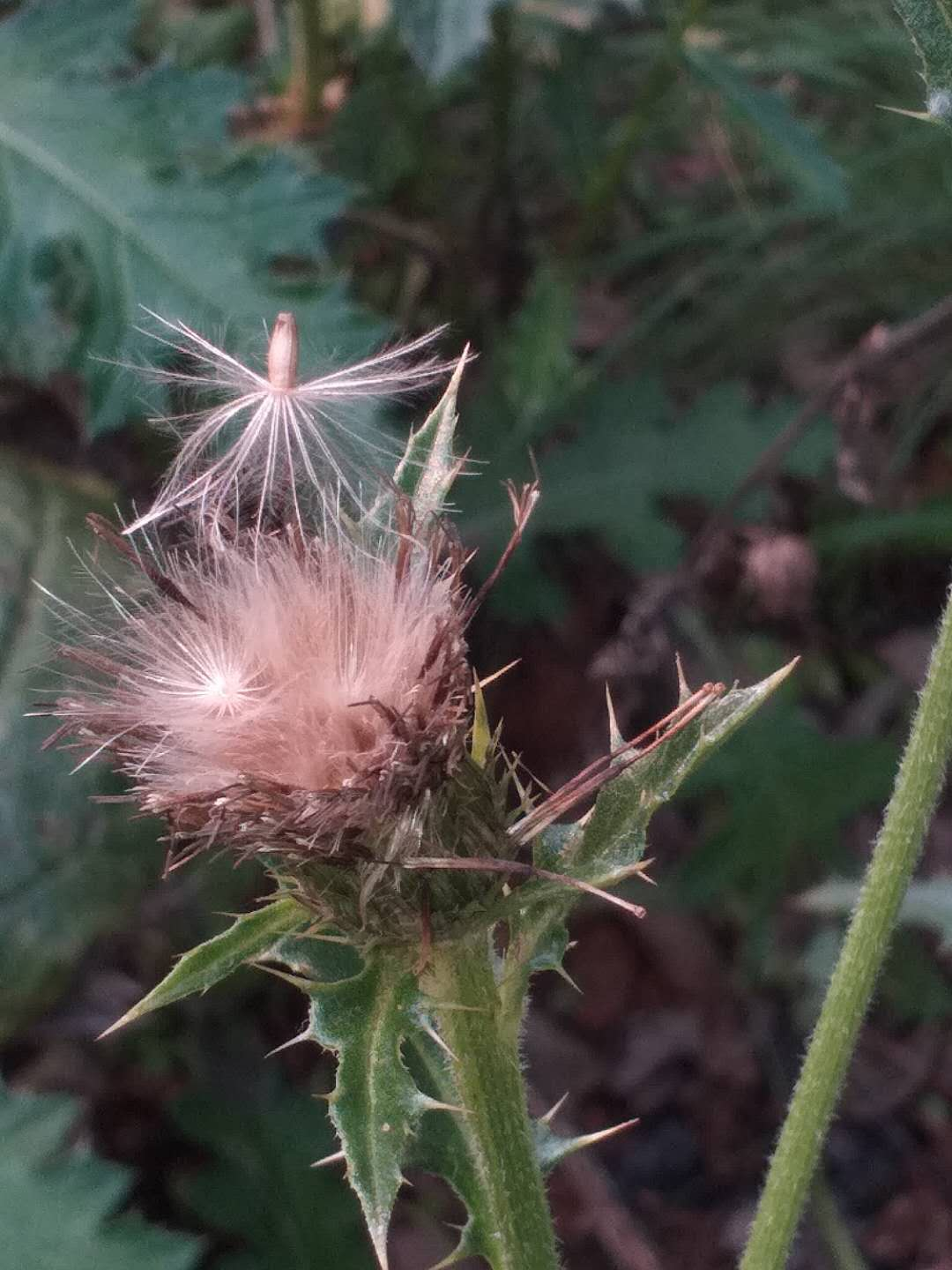 Pappus and achene of Cirsium japonicum var. takaoense. 2018 Taichung World Flora Exposition, Taiwan.